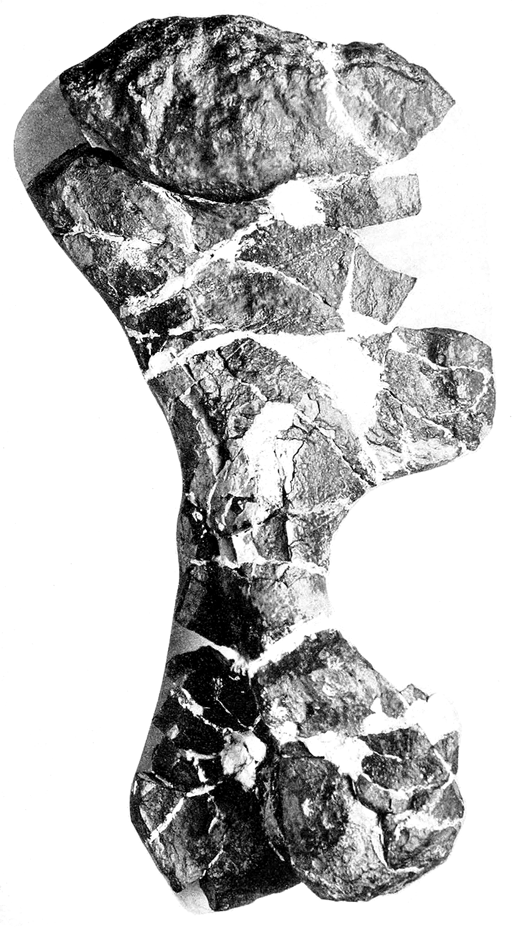 Original figure caption: External Aspect of Right Humerus of Placerias hesternus (Type. No.2198, U.S.N.M.) Additional notes: The specimen comes from the Lower Petrified Forest Member of the Chinle Formation (Upper Carnian), from 3 miles north of Tanners Crossing, northern Arizona, west of Grand Canyon National Park, USA. The length of the specimen is about 40 cm (16 in).